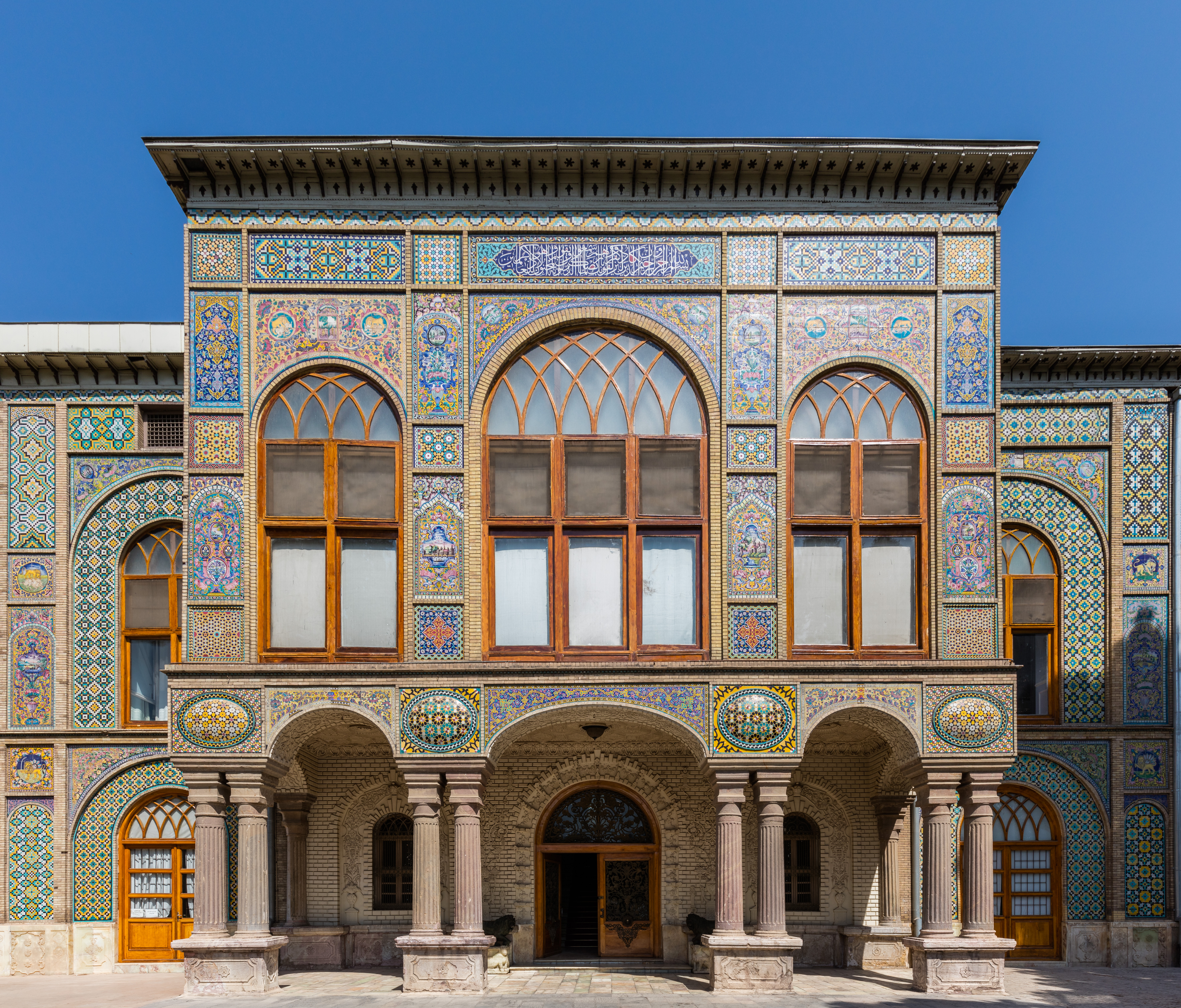 Golestan Palace, Tehran, Iran